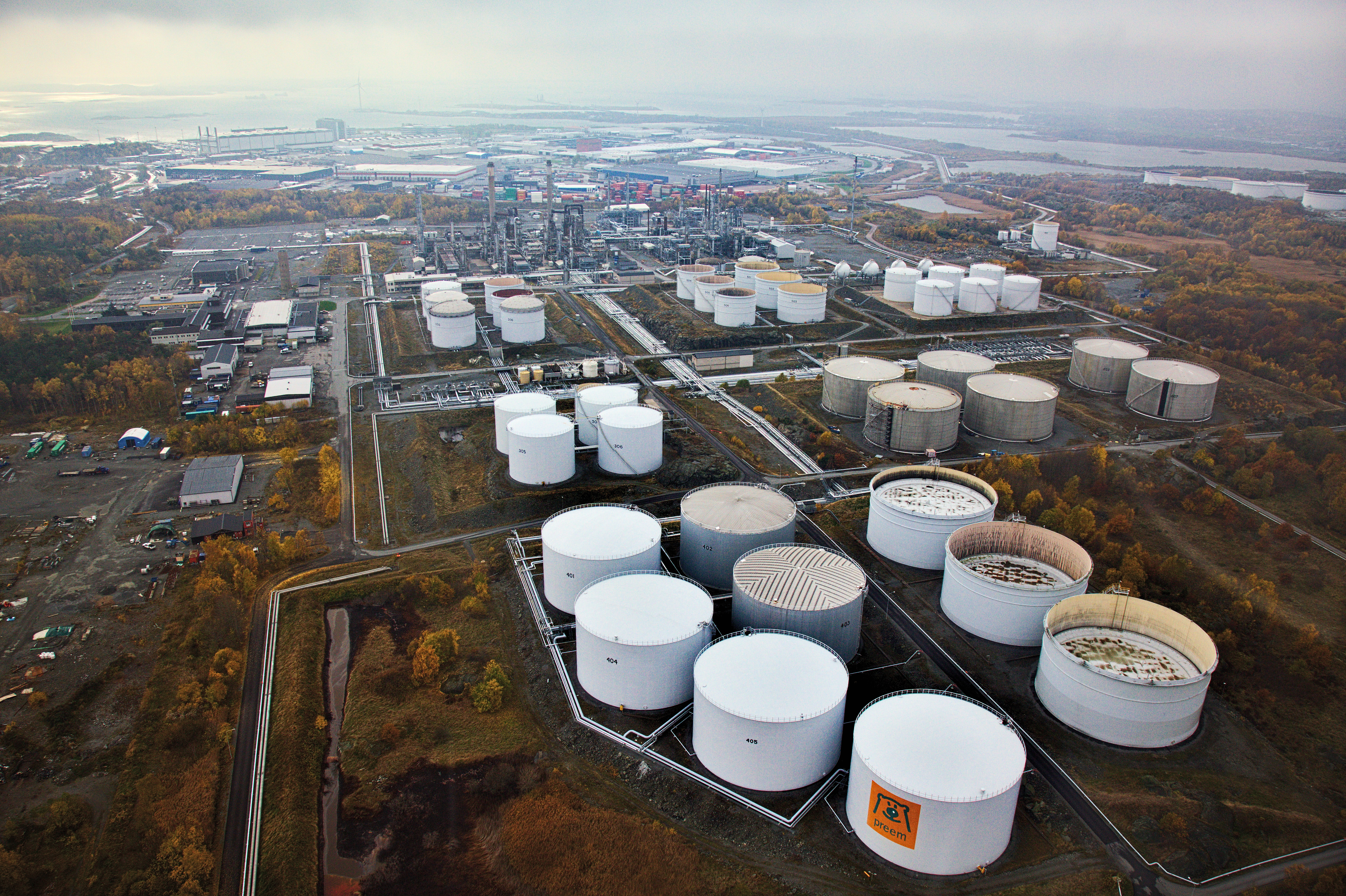 Photo taken on a helicopter over Gothenburg